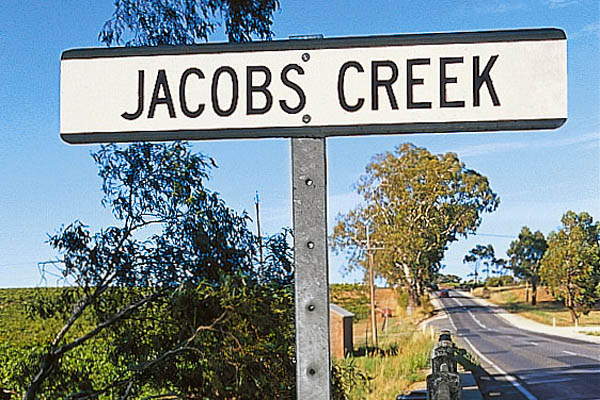 Signpost at Jacob's creek.